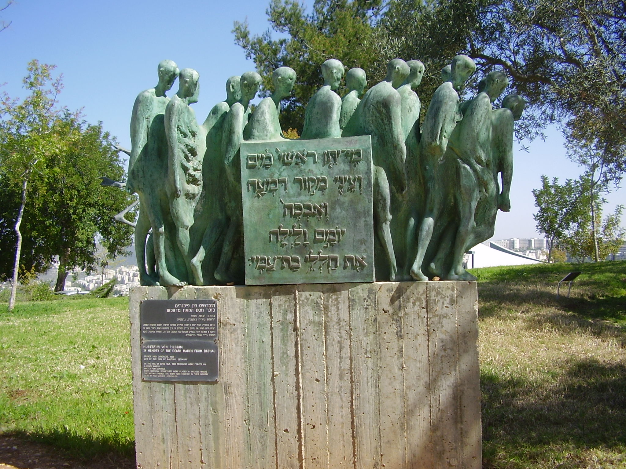 the death march from dachau